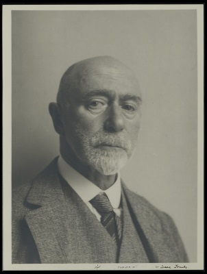 Isaac Lazarus Israels